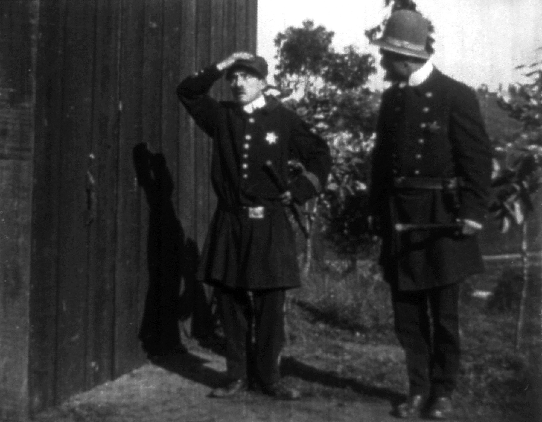 Film still from the movie A Thief Catcher